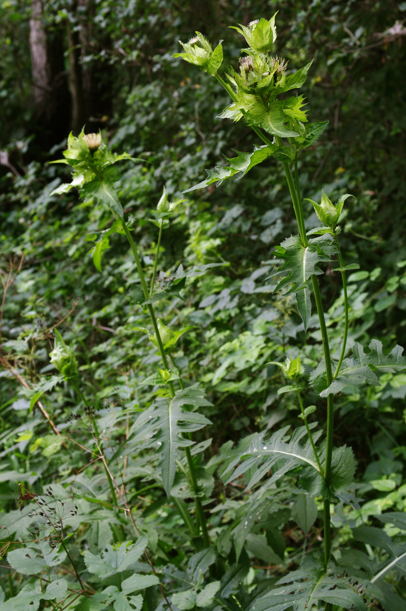 Flowering plants of Cirsium oleraceum on a partially shaded, moist forest pathway.